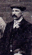 Sam Bennion